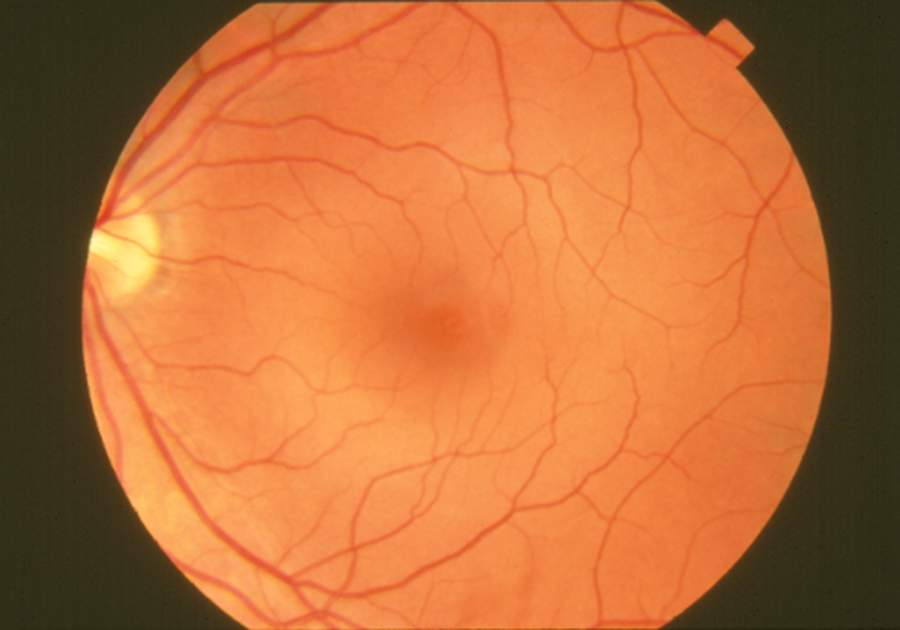 Fundus, photograph-normal retina Description: Fundus photograph-normal retina Credit: National Eye Institute, National Institutes of Health Ref#: EDA06